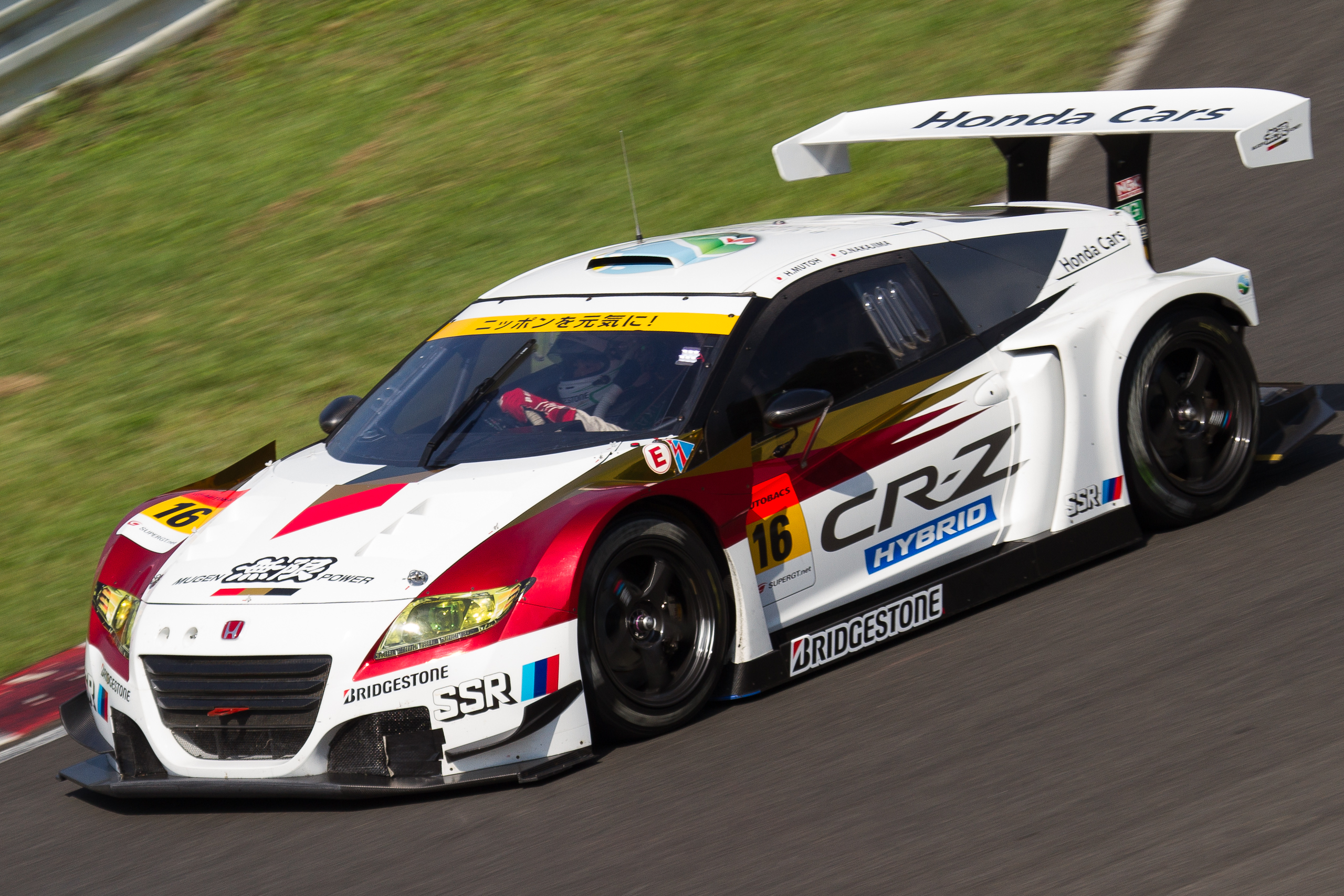 Super GT 2012 Rd.4 SUGO GT 300km: Daisuke Nakajima (Team Mugen) driving the Honda CR-Z GT300.